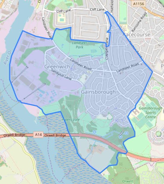 Open Street Map with area shaded blue for Gainsborough Ward, Ipswich This map of South East Ipswich was created from OpenStreetMap project data, collected by the community. This map may be incomplete, and may contain errors. Don't rely solely on it for navigation.